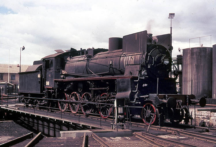 NSB class 26c #412 on Hamar turntable